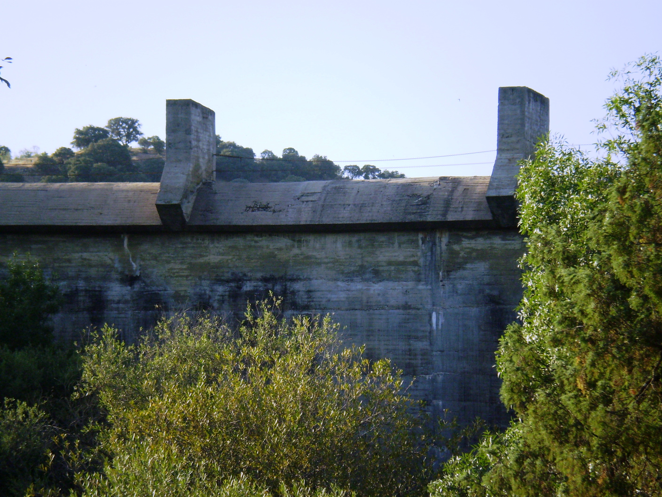 Cerro Alarcón Reservoir, over Perales River. Community of Madrid, Spain